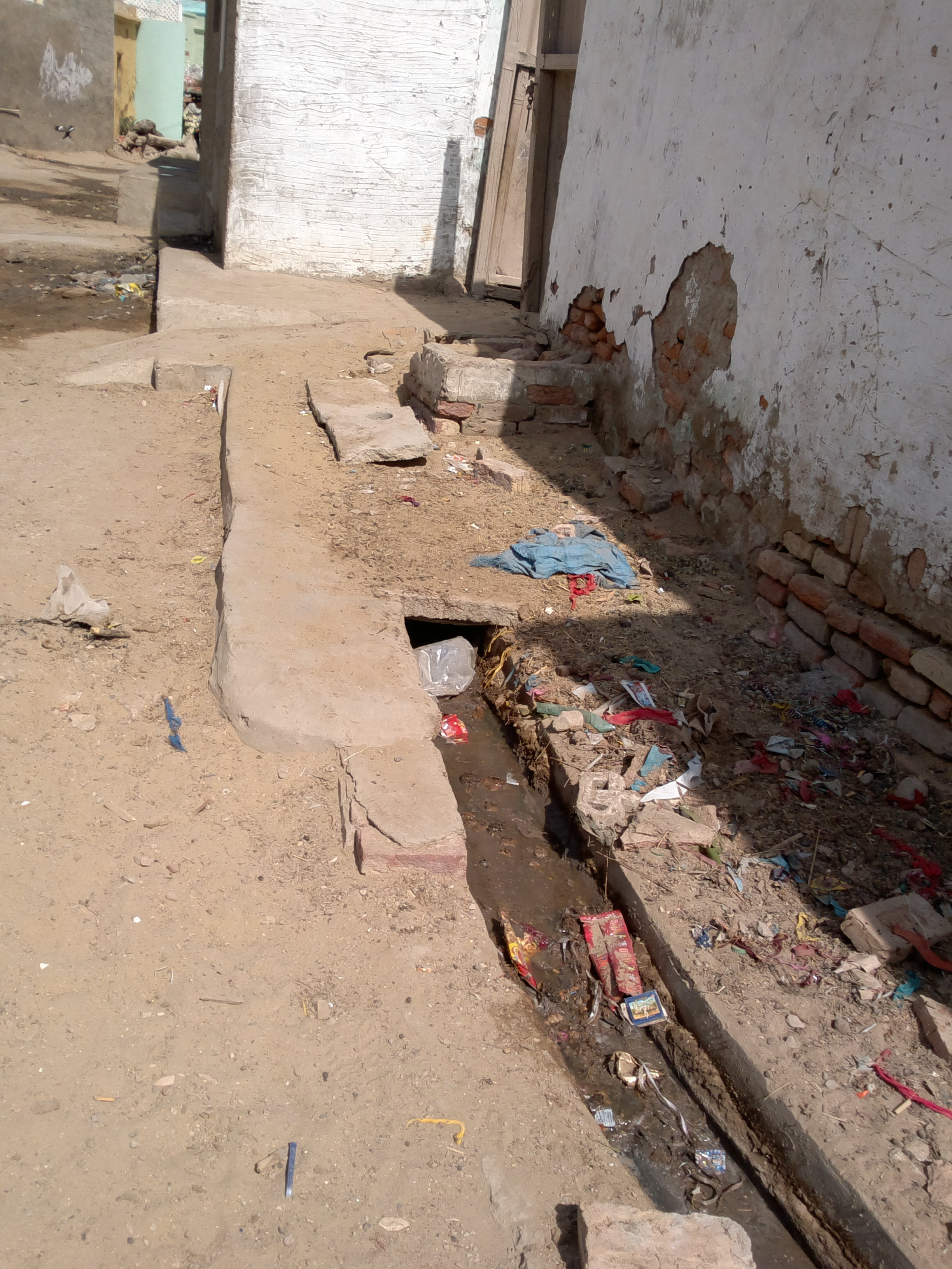 Sewage system in Tharparkar. The old urban houses may have such open passages even inside house while newly constructed houses might have covered or underground drainage pipes but after getting out of premises or house the drainage passage is mostly open as seen in the picture. The children or adults playing cricket often get their ball dipped in such gutters but with no option continue playing after wiping or washing it. While rainy days it is like game of minesweeper where either you get spoiled or you are safe.